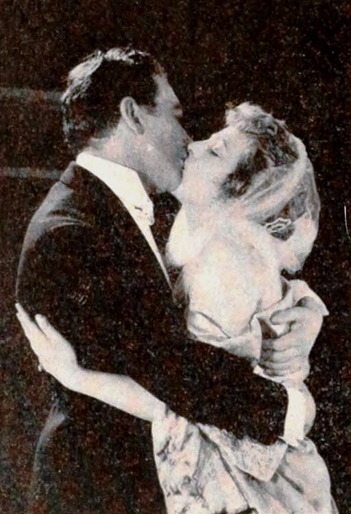 Still from the American film Heartsease (1919) with Tom Moore and Helene Chadwick, on page 61 of the August 30, 1919 Exhibitors Herald.